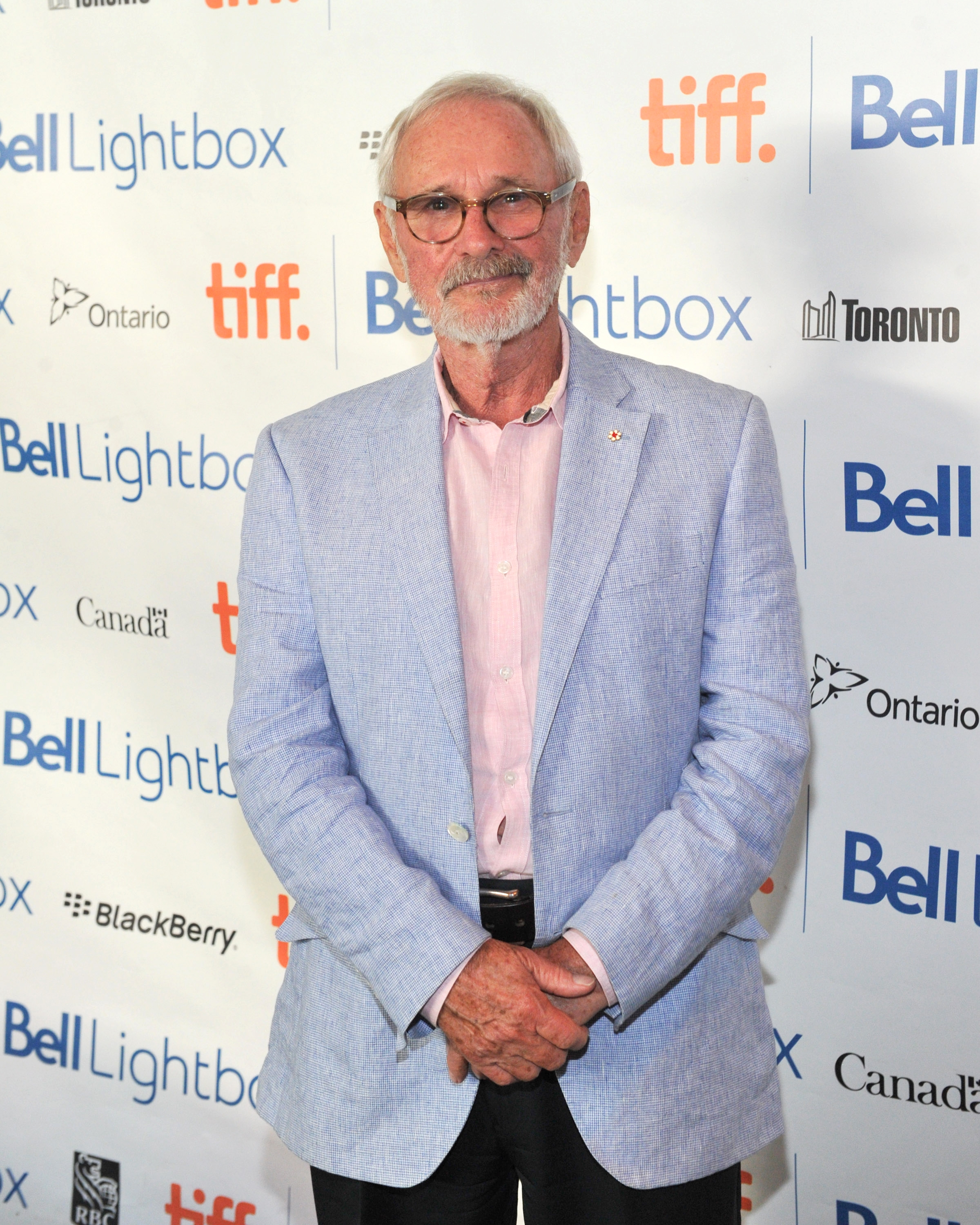 Director Norman Jewison at TIFF Bell Lightbox for "Norman Jewison and Friends with Moonstruck". Toronto, Ontario, Canada.